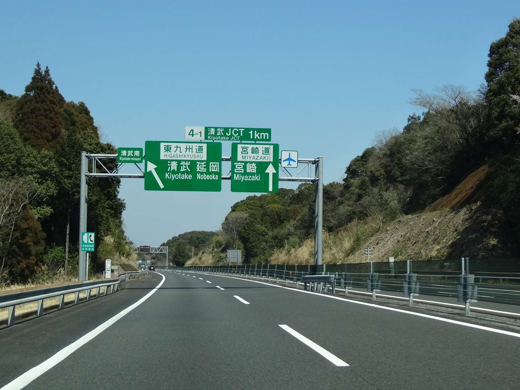 The Miyazaki Expressway in Kiyotake, Miyazaki City, Miyazaki Prefecture, Japan.